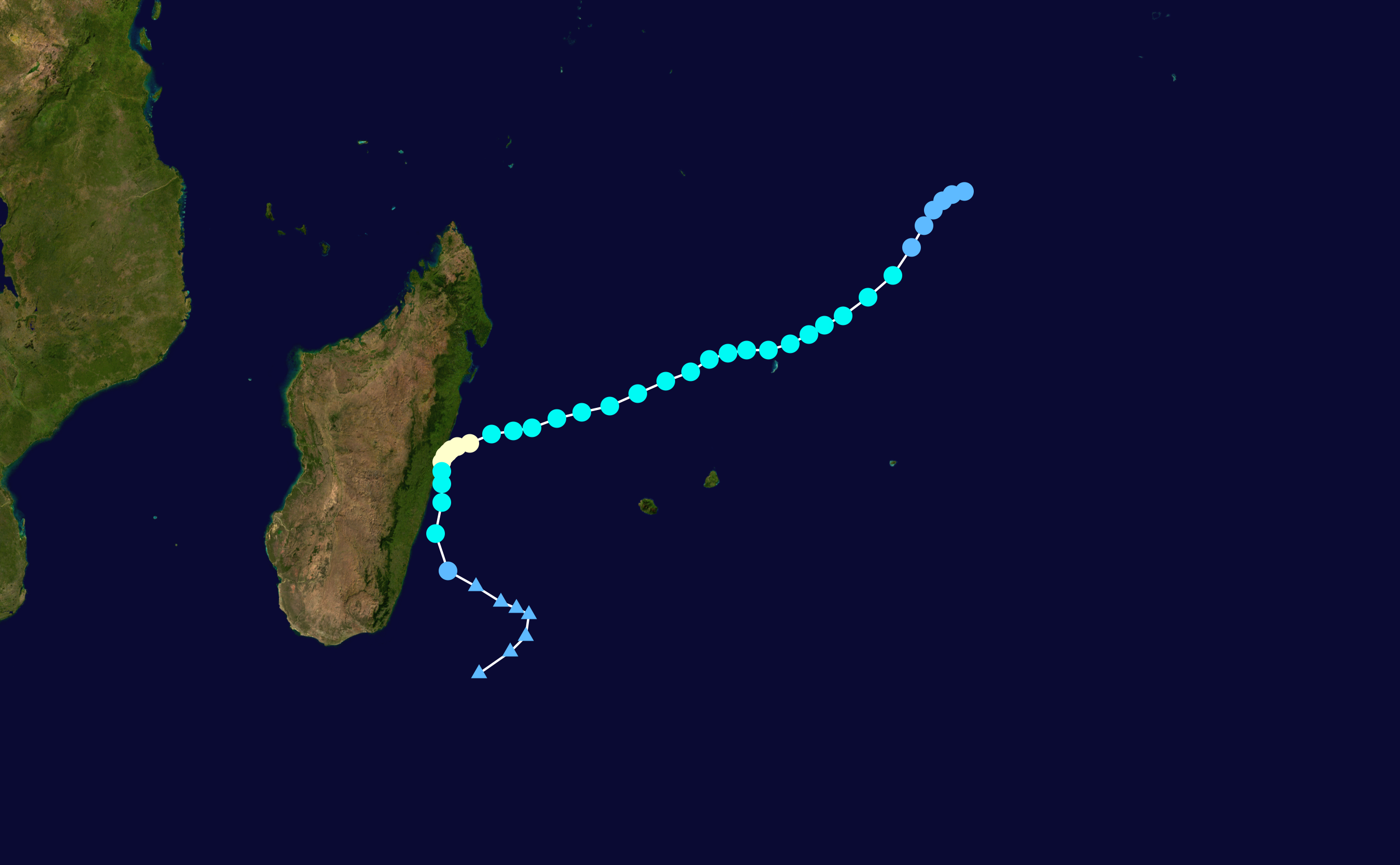 Cyclone Manou (2003) track. Uses the color scheme from the Saffir-Simpson Hurricane Scale.